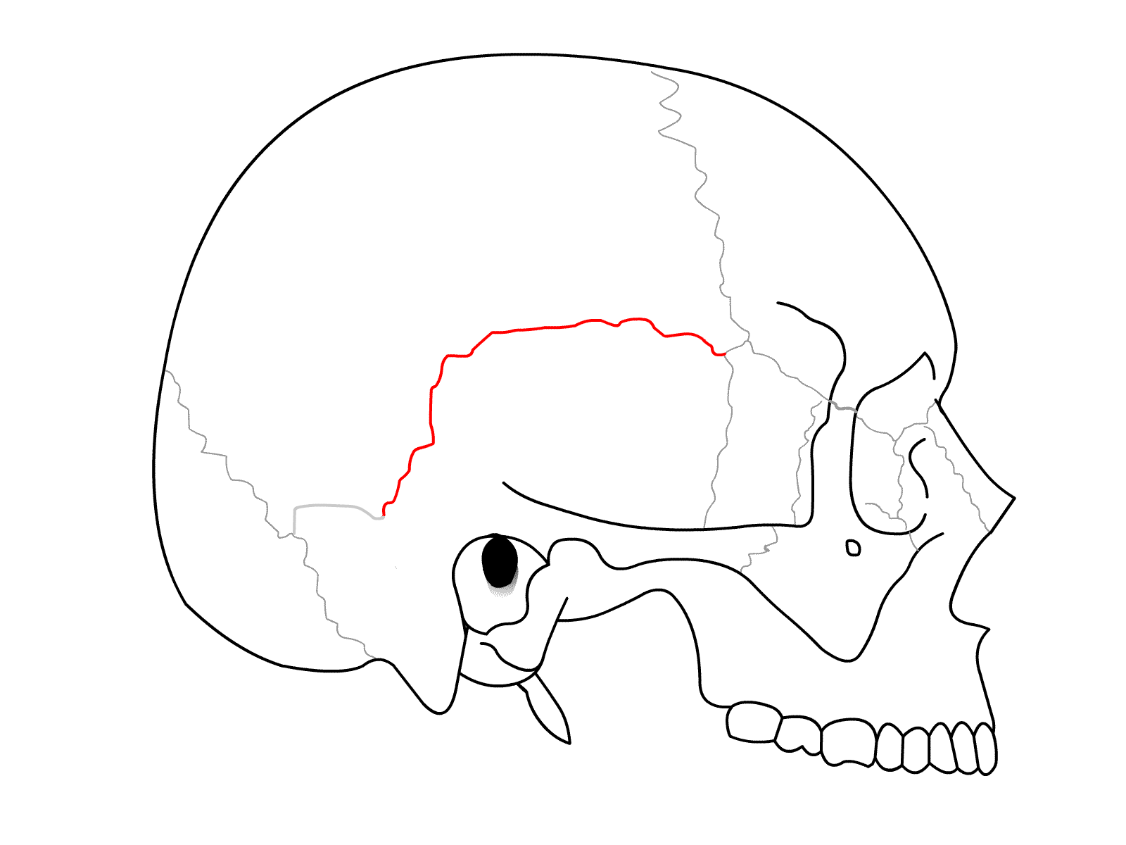 Squamosal suture. Shown in red.